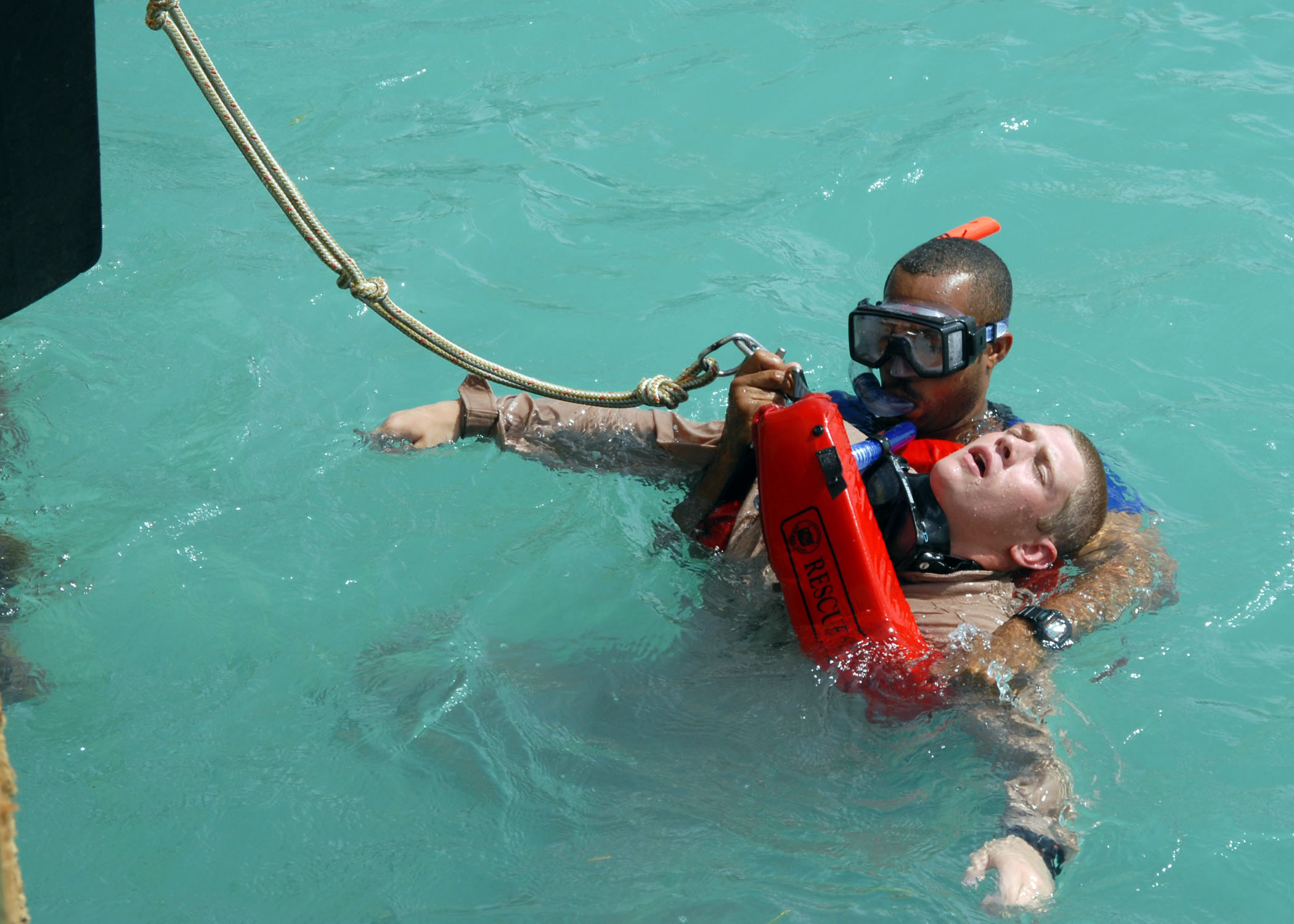 ST JOHN'S, Antigua (July 7, 2008) Navy Diver 3rd Class Kyle Duncan, assigned to Explosive Ordnance Disposal, Expeditionary Support Unit (EODESU) 2, acts as an unconscious diver during a rescue demonstration with Regional Security Service diver of the Common Wealth of Dominica, Constable Vincent Gregoire, as part of Navy Diver-Global Fleet Station (ND-GFS) 2008. Global Fleet Station's mission is to maintain strong multi-laterial partnerships, support the U.S. maritime strategic goals and enhance regional stability and security by promoting multinational working relationships. U.S. Navy photo by Mass Communication Specialist 2nd Class Kori L. Melvin (Released)